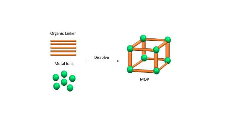 Metal ions and organic linkers are combined in solution where they dissolve and then react to form MOPs.